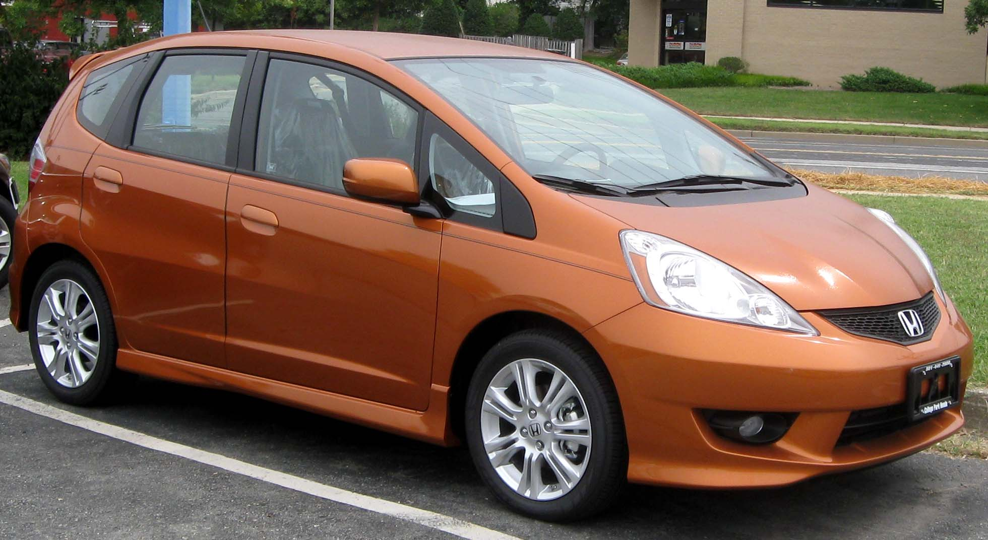 2010 Honda Fit photographed in College Park, Maryland, USA.